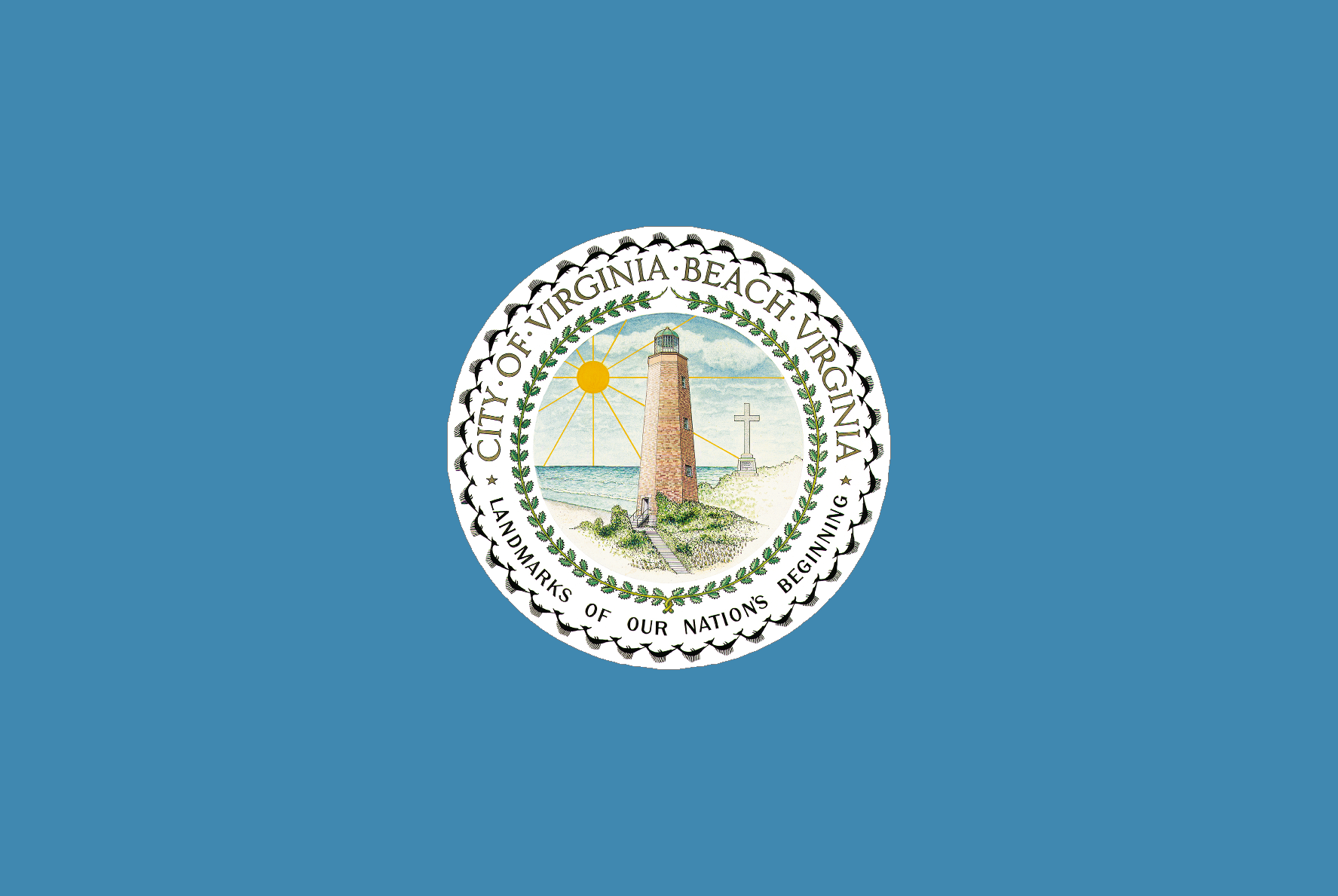 The council accepted the design for a new city flag of Virginia Beach, Virginia, on January 11, 1965. The design was chosen by a three-member flag committee. The flag design was modeled after the flag of the Commonwealth of Virginia, with a solid blue background with the official city seal placed in the center.